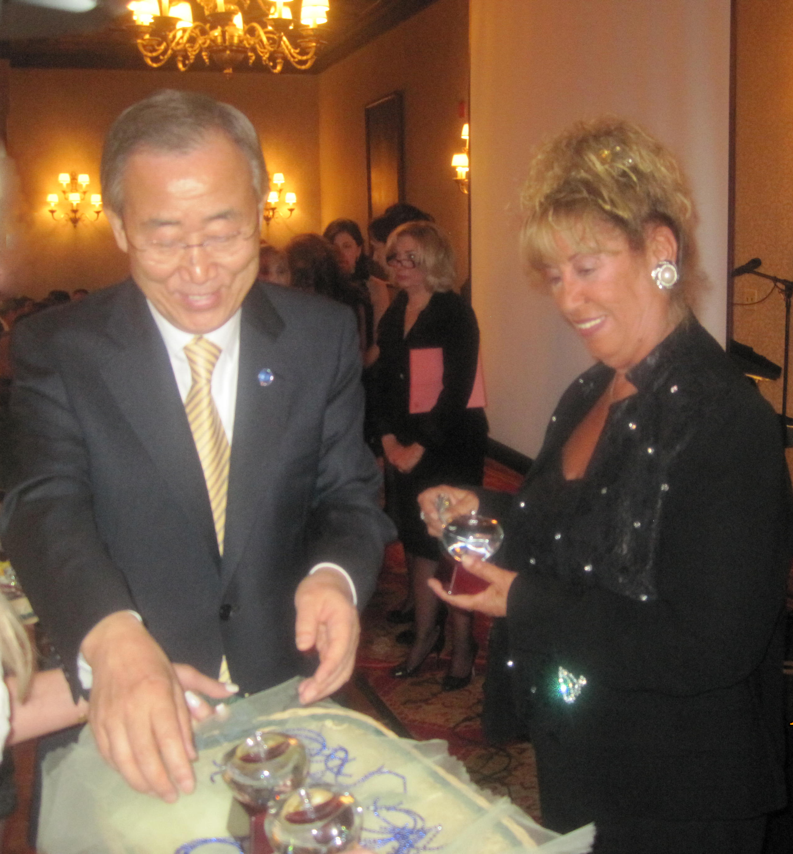 Ban Ki Moon gave the Syrian Superstar Muna Wassef the ASMA foundation Achievement Award in NYC. Muna Wassef was a UNDP goodwill ambassador.